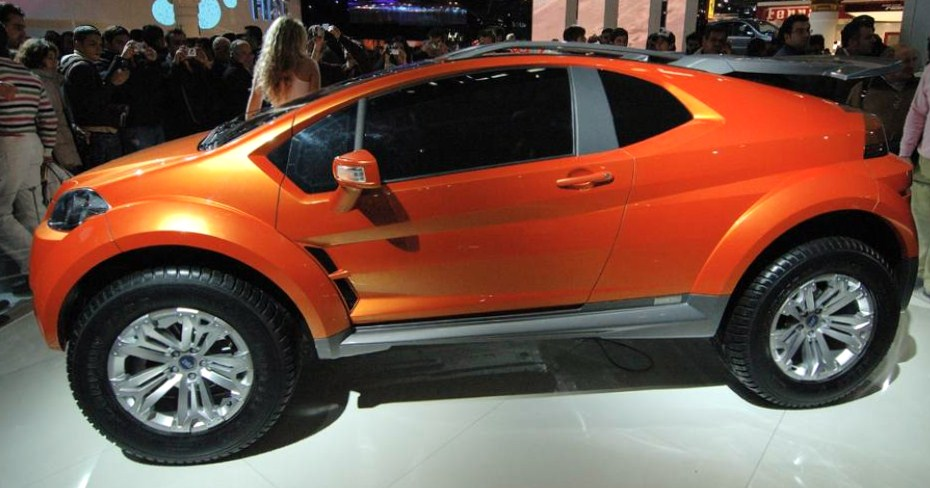 Fiat FCC